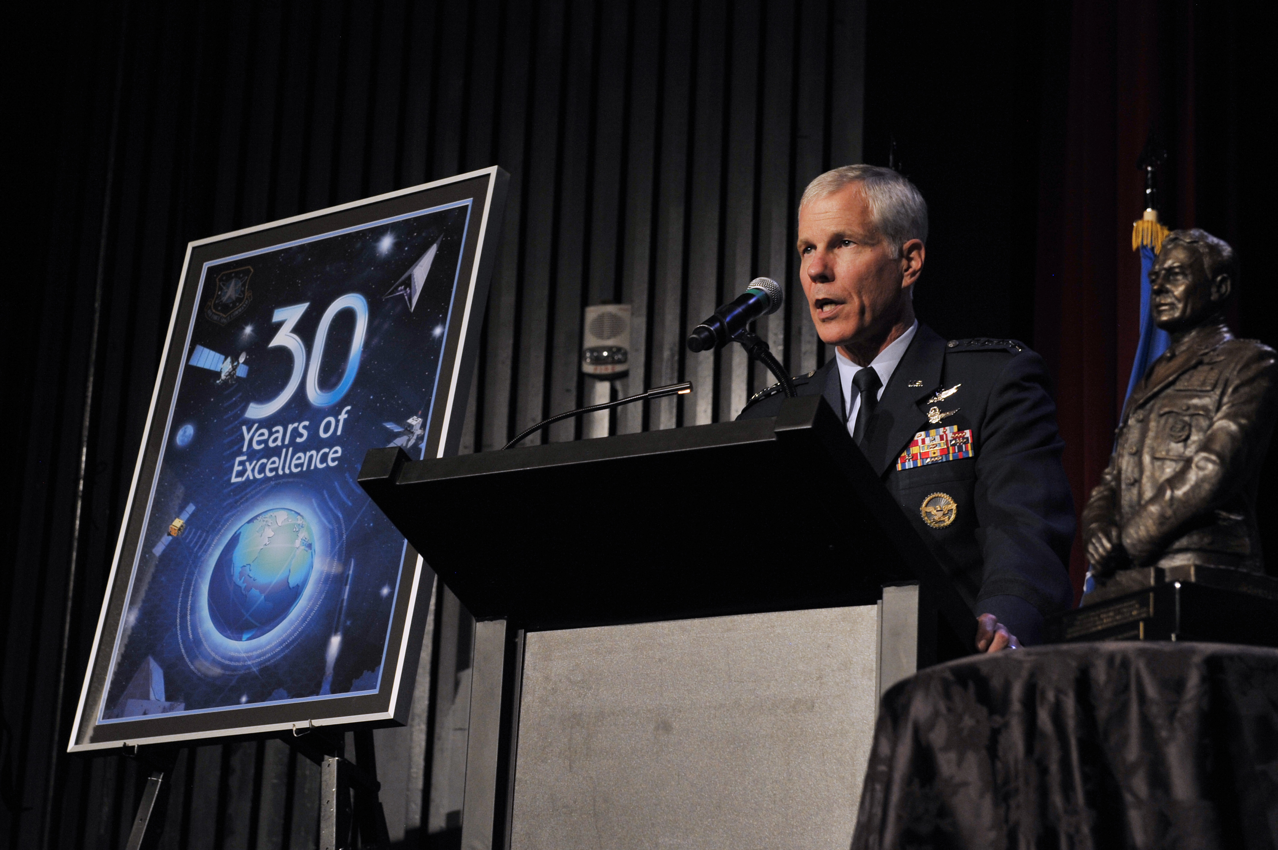 General William Shelton, Air Force Space Command commander, addresses friends and coworkers during a banquet hosted by the Space Foundation in honor of Air Force Space Command’s 30th anniversary celebration Sept. 14, 2012, Colorado Springs, Colo. (U.S. Air Force photo/Staff Sgt. Christopher Boitz/Released)